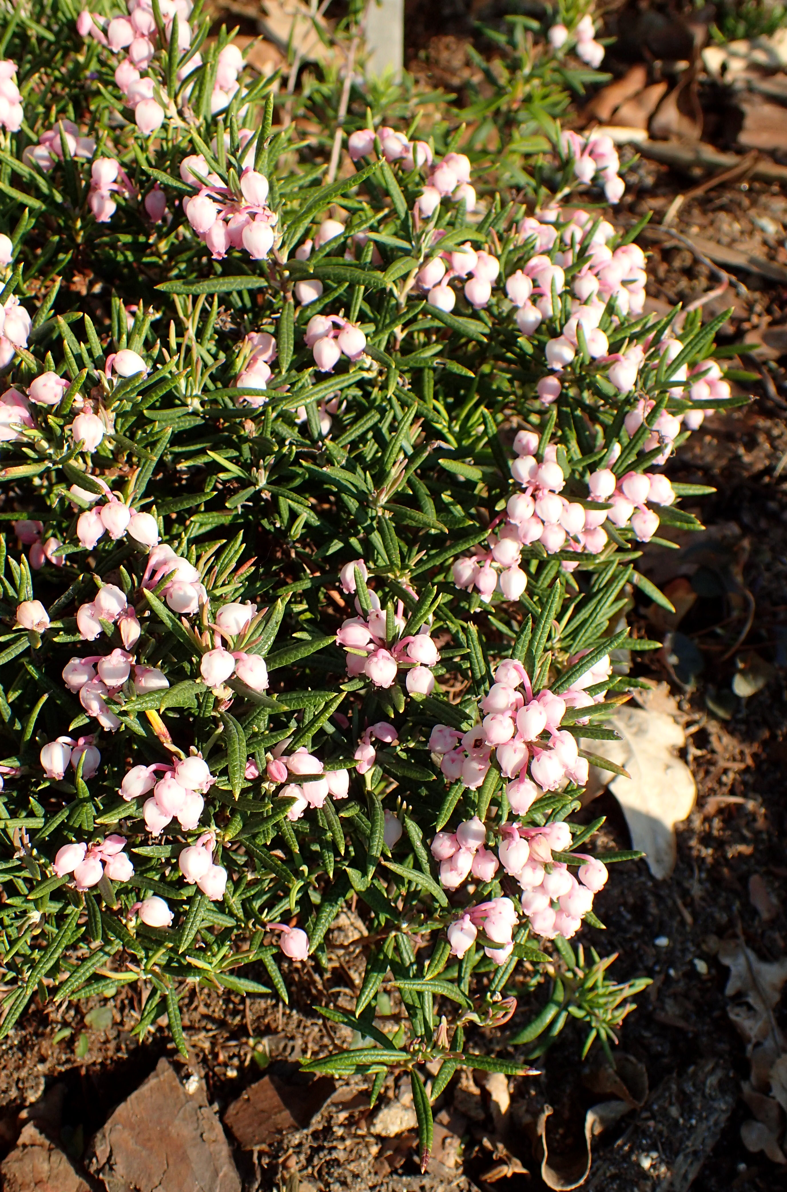 Andromeda polifolia 'Iwasugo' in arboretum in Wojsławice